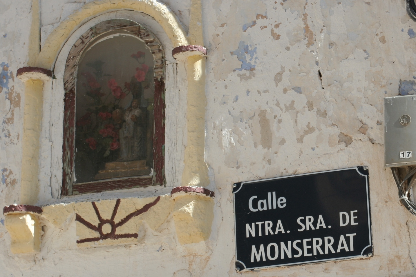 Codo (Aragon)